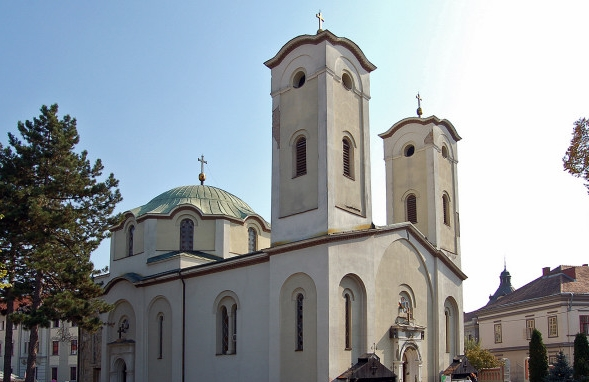 Church of Ascencion of Jesus